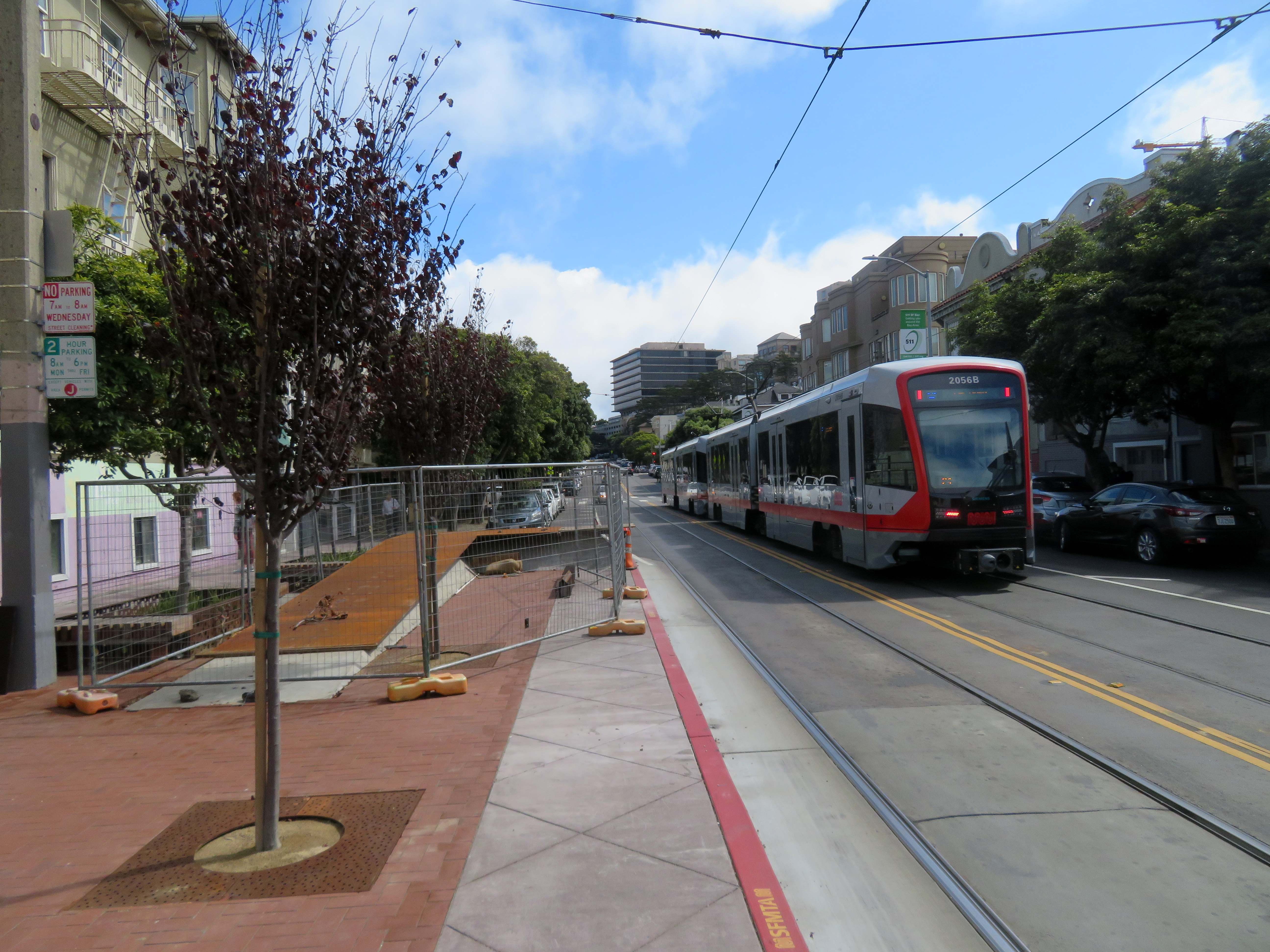 An inbound train passing the nearly-complete Irving and 6th Avenue station in September 2019